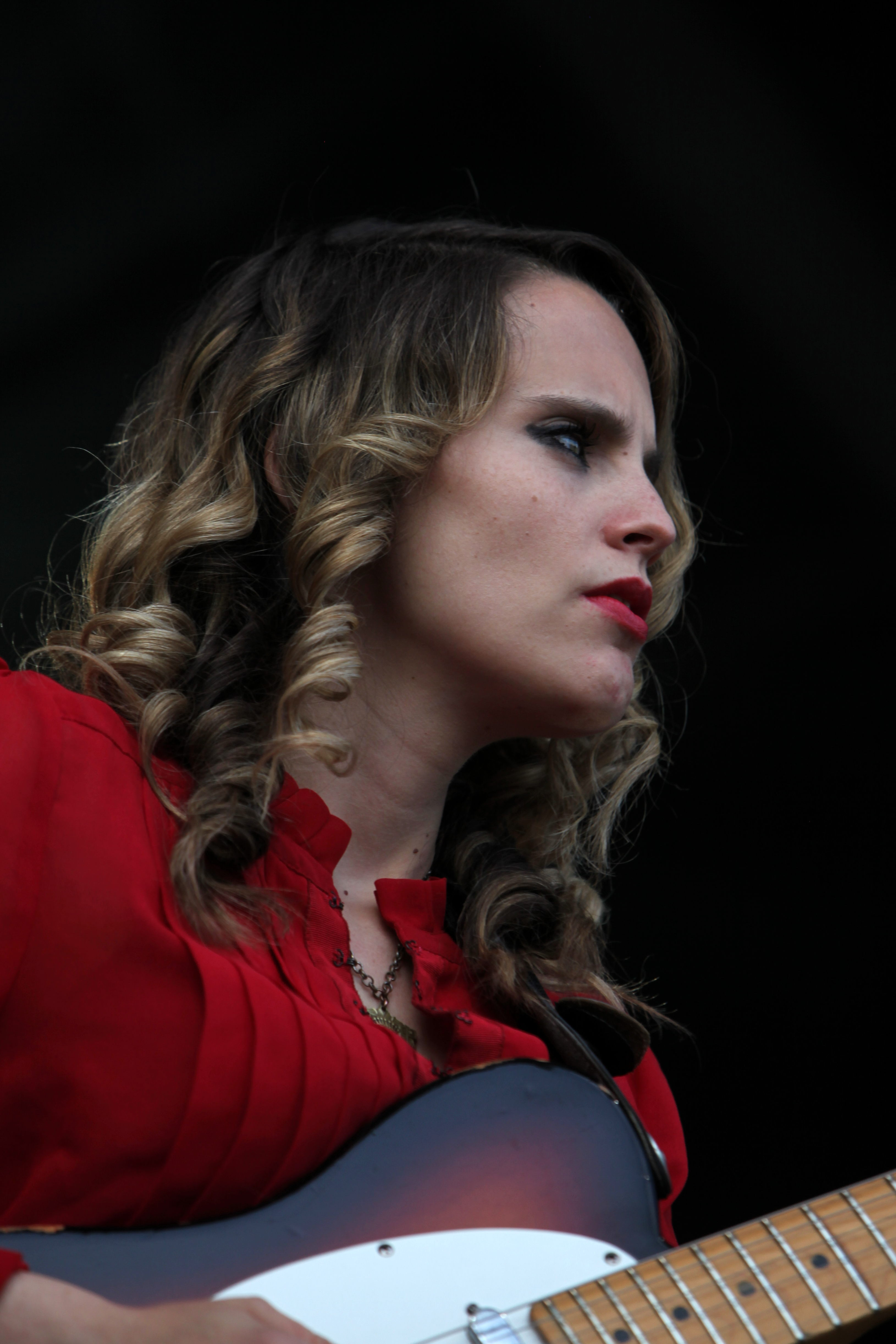 Anna Calvi at the Eurockéennes de Belfort 2011 The making of this document was supported by Wikimedia CH. (Submit your project!) For all the files concerned, please see the category Supported by Wikimedia CH.